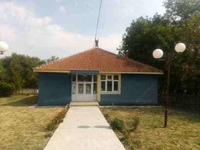 Primary school "Sveti Sava" Crni Kao